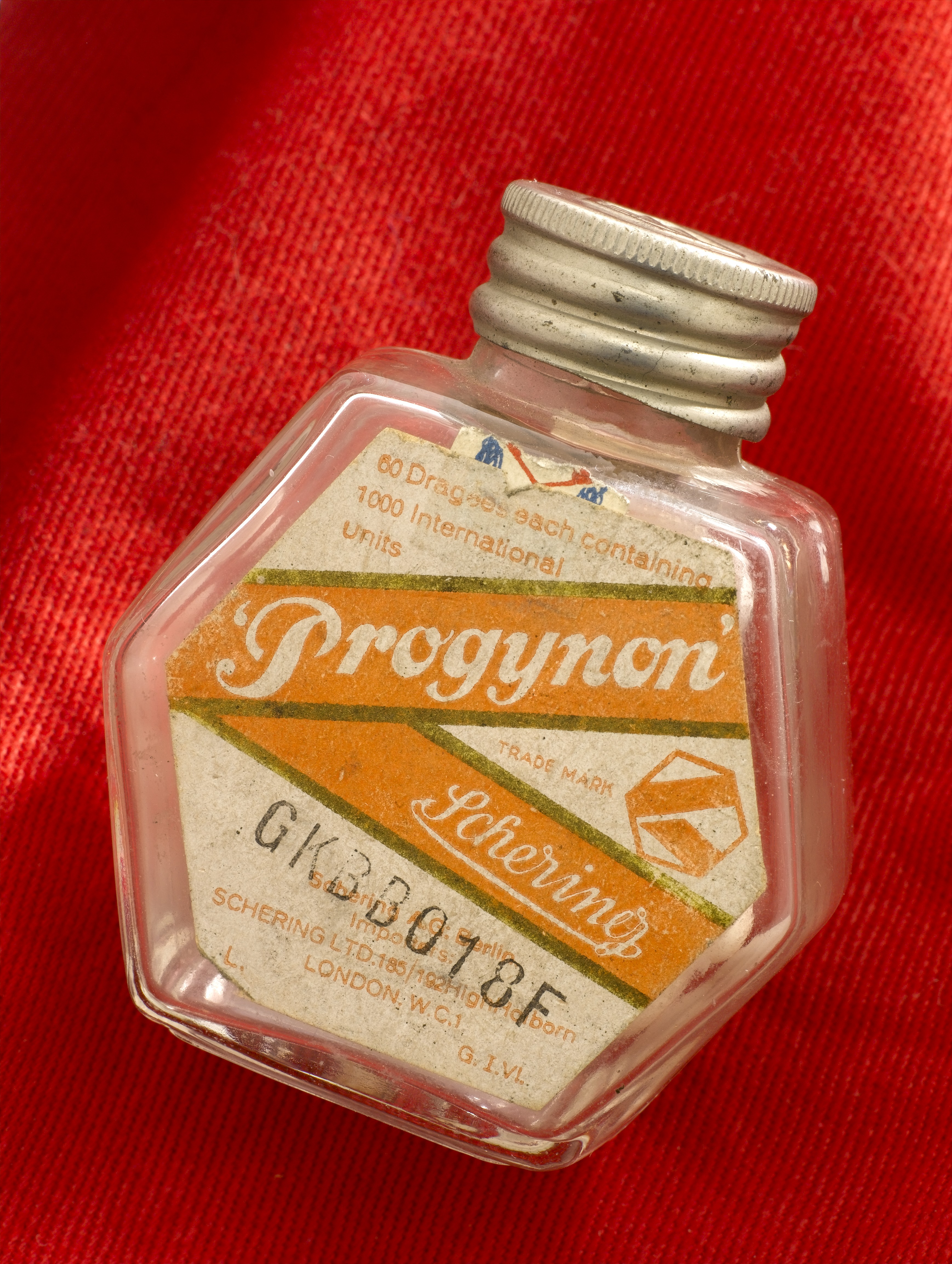 ‘Progynon’ is the brand name for a hormone supplement used to control the effects of the female menopause. These include hot flushes, severe mood swings and palpations caused by a change in the balance of sex hormones in the body. These pills would help restore the balance. ‘Progynon’ first appeared on the market in Germany in 1928. At first the hormones to make up the pills were expensive to purchase. In order to make the pills more affordable, Schering extracted the hormones from the urine of pregnant women. maker: Schering Limited Place made: United Kingdom Wellcome Images Keywords: hormone; bottle; Hormones